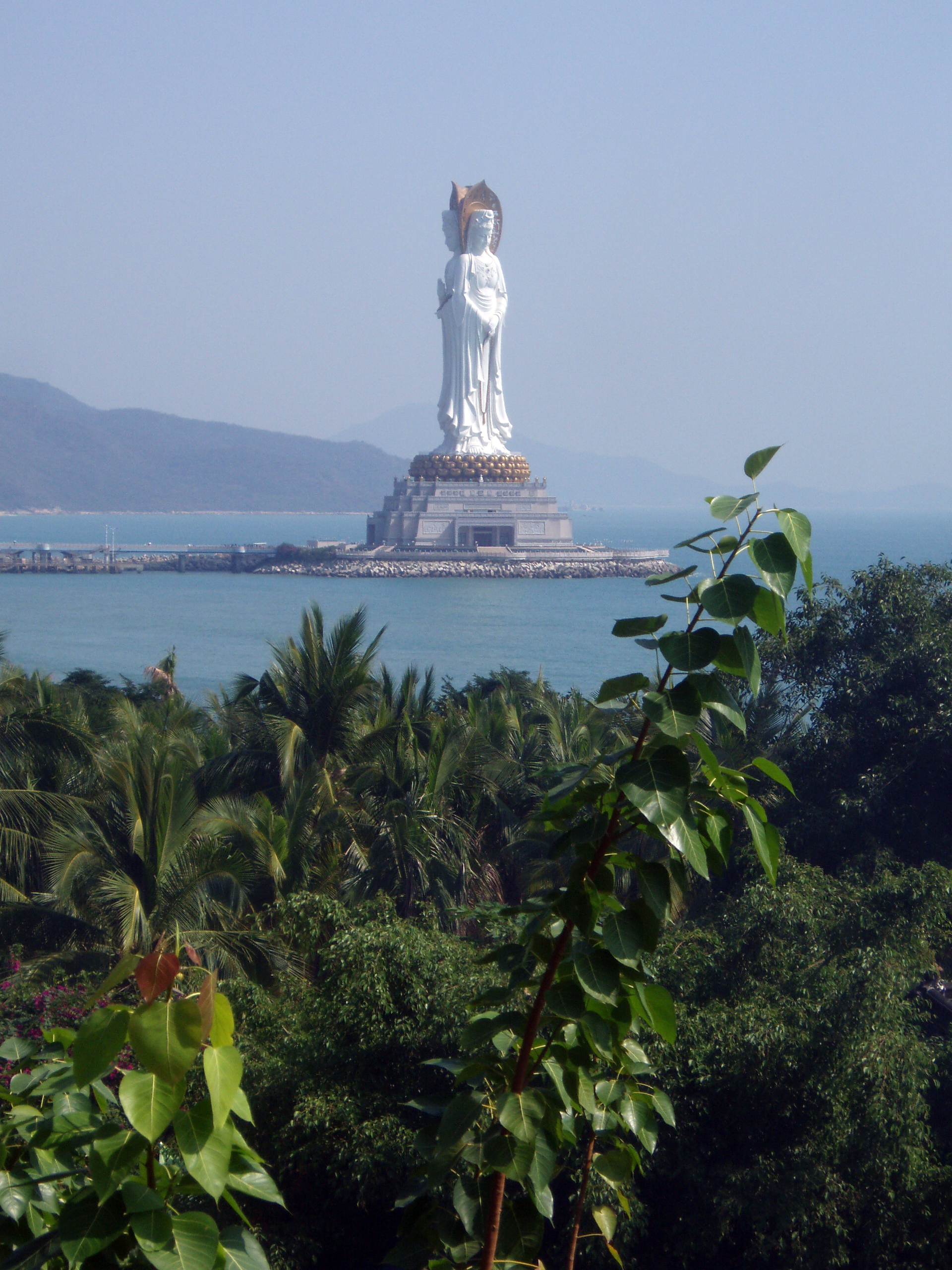 The 108 meters high Statue of Avalokitesvara, A Bodhisattva of Buddhism, in the sea of Sanya, Hainan Province of China.